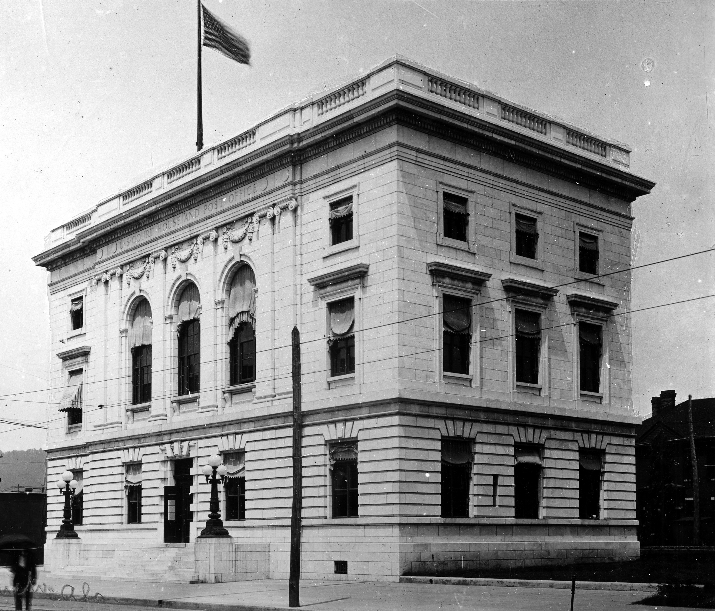 U.S. Court House and Post Office (n.d., ca. 1906; 1935) Completed in 1906. Supervising Architect: James Knox Taylor Extension completed in 1934. Still in use by the U.S. District Court for the Northern District of Alabama; the U.S. Circuit Court for the Northern District of Alabama met here until that court was abolished in 1912.